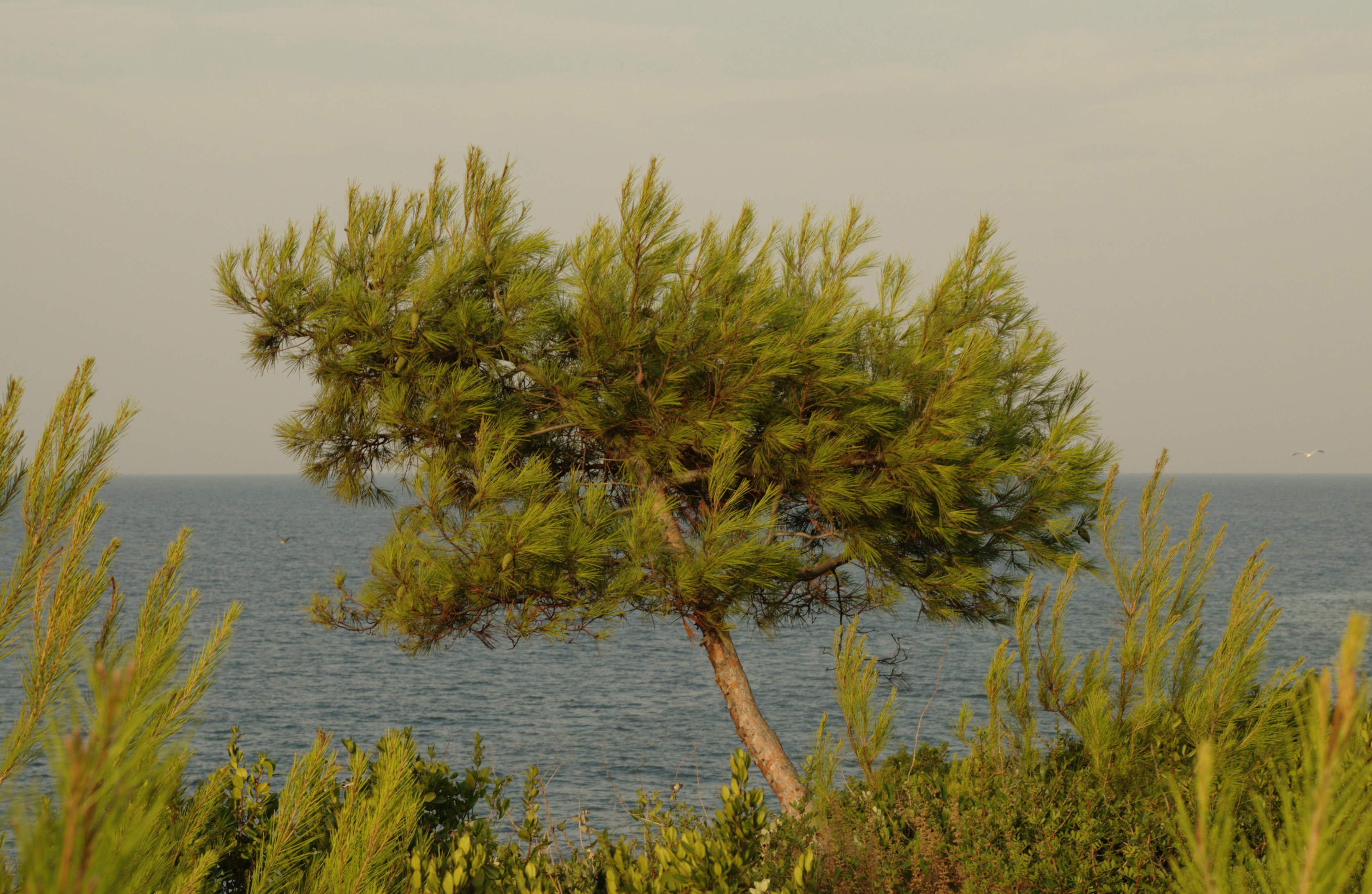 Pinus halepensis tree. Rovinj, Croatia.